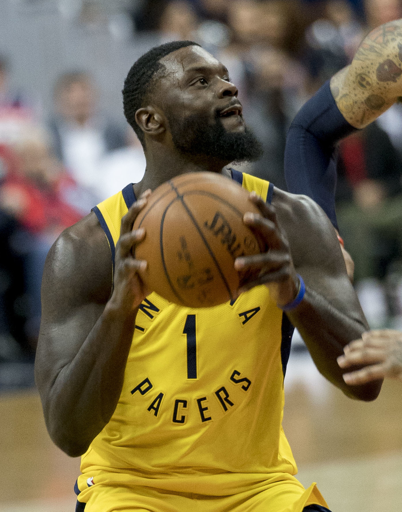 Pacers at Wizards 3/17/18